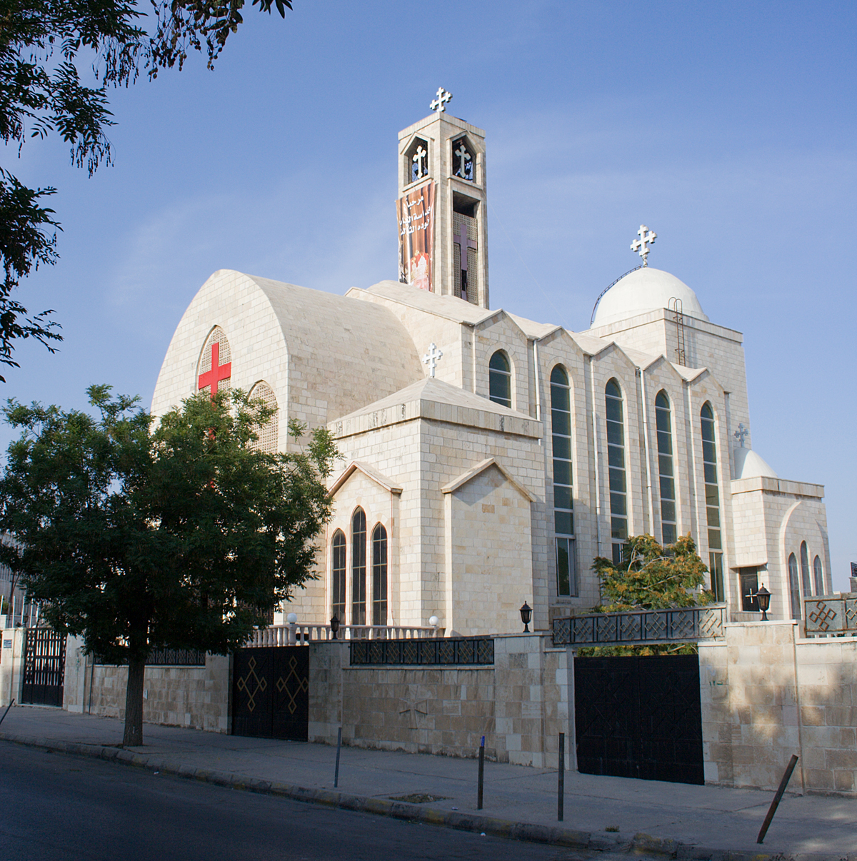 A Coptic church in Amman, Jordan